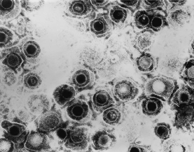 Transmission electron micrograph of herpes simplex virus Transmission electron micrograph of herpes simplex virus. Some nucleocapsids are empty, as shown by penetration of electron-dense stain.